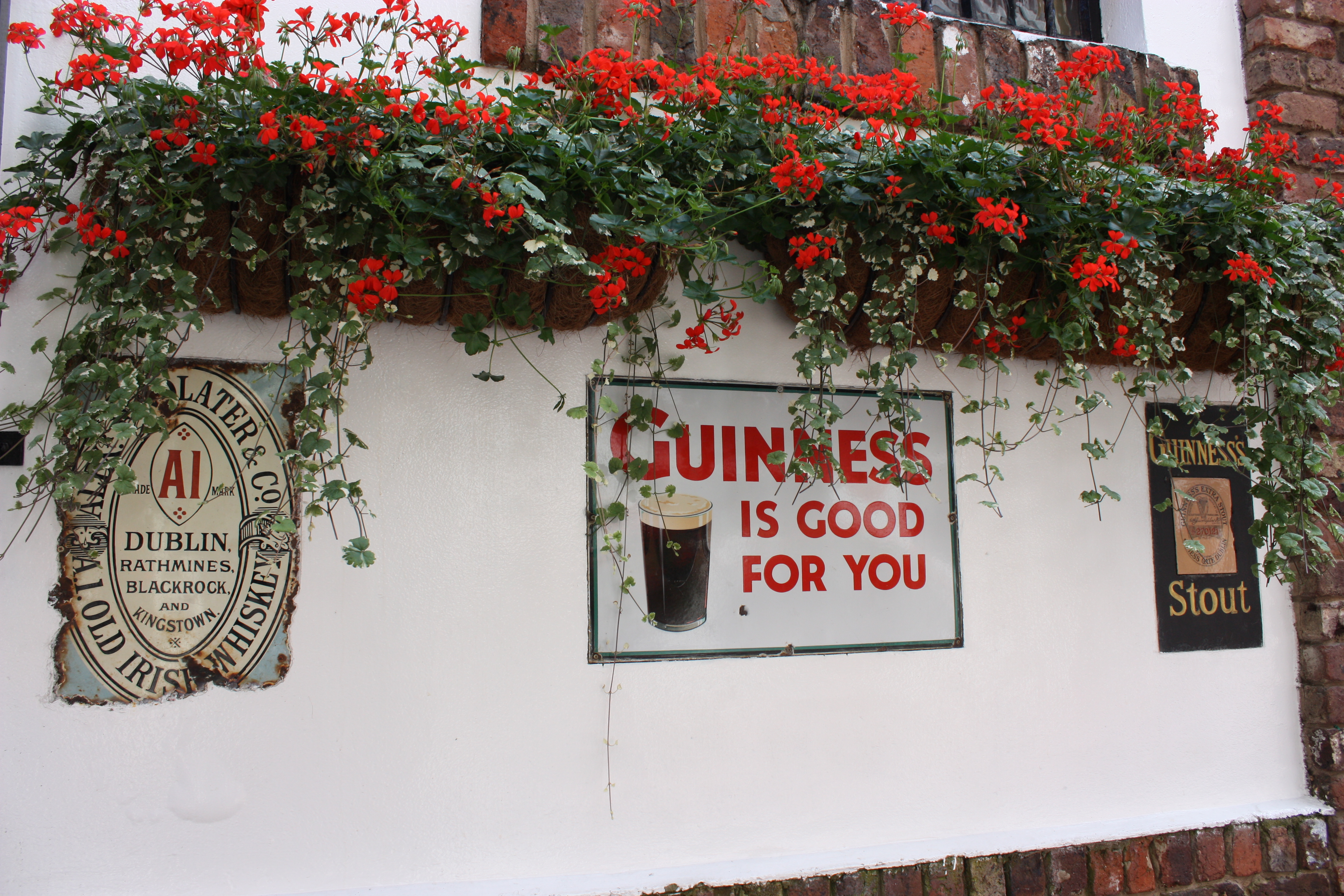 The Duke of York pub, Commercial Court, Belfast, Northern Ireland, July 2010